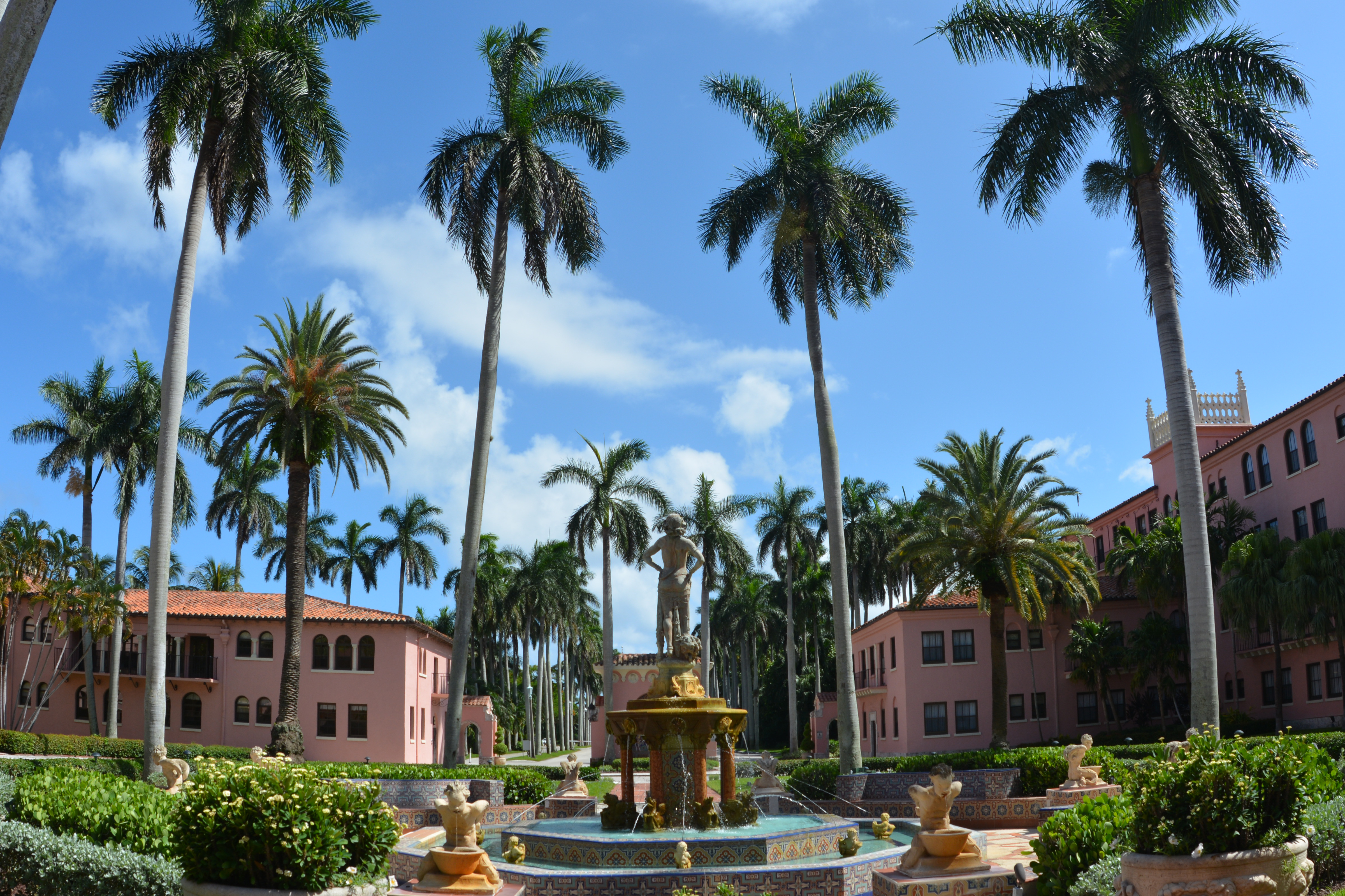 Boca Raton Resort porte-cochere perspective photo D Ramey Logan